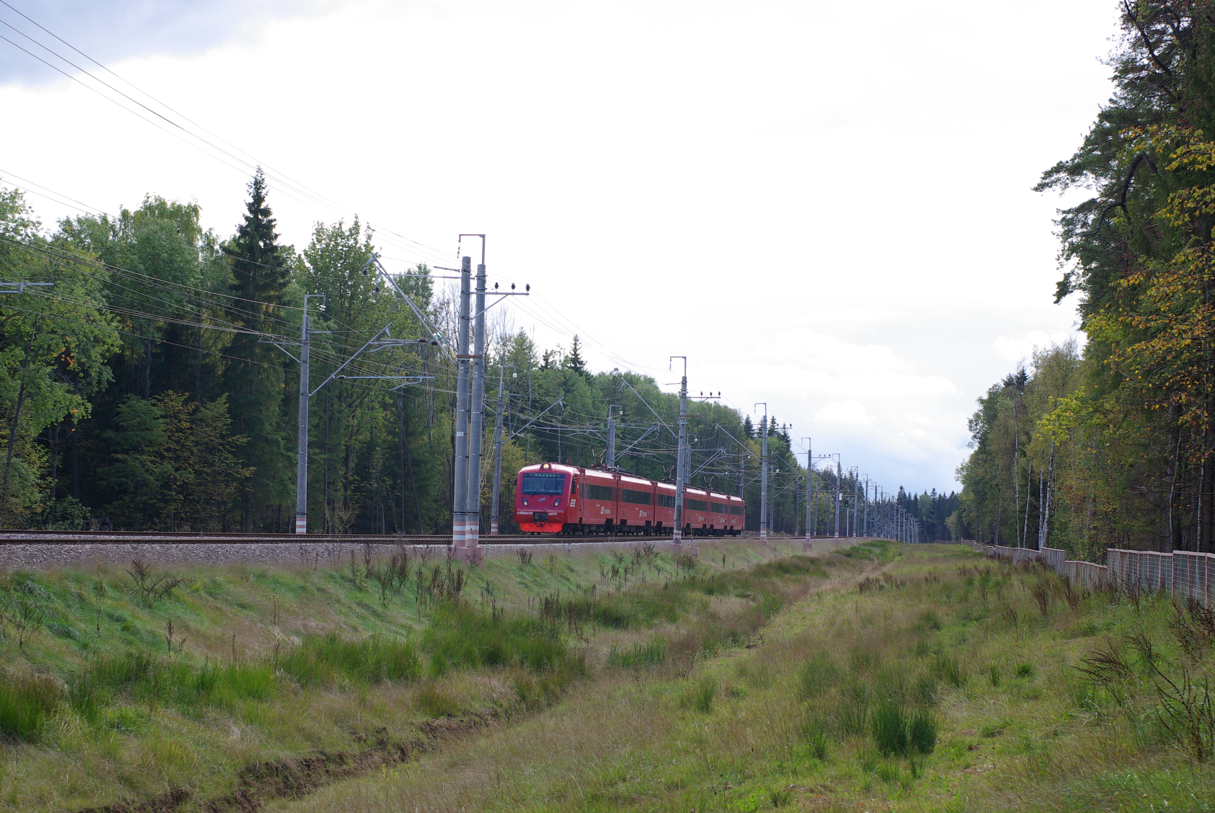 RZD ED4MKM-AERO-0002 EMU. Aeroexpress service Moscow - Sheremetyevo airport. Lobnya city.